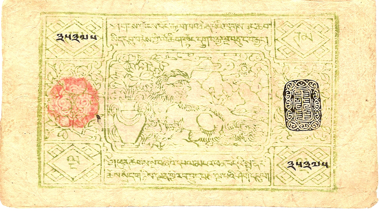 Tibetan 5 Tam banknote, dated 1658 (=AD 1912), serial number 35385 (face)